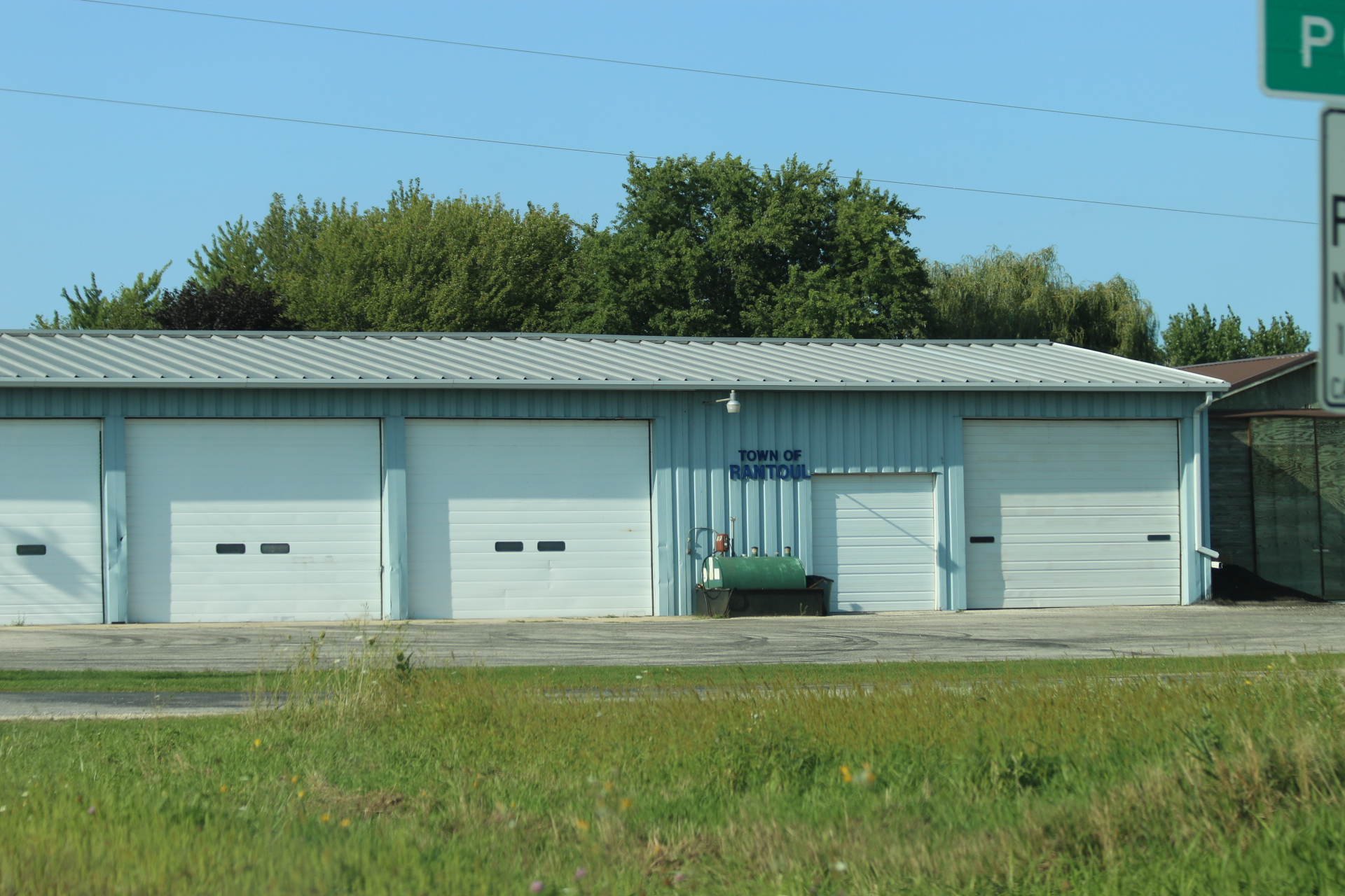 The town hall for Rantoul, Wisconsin near Potter